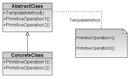 The UML illustration for the Template Method design pattern. Shows the structure of the pattern.